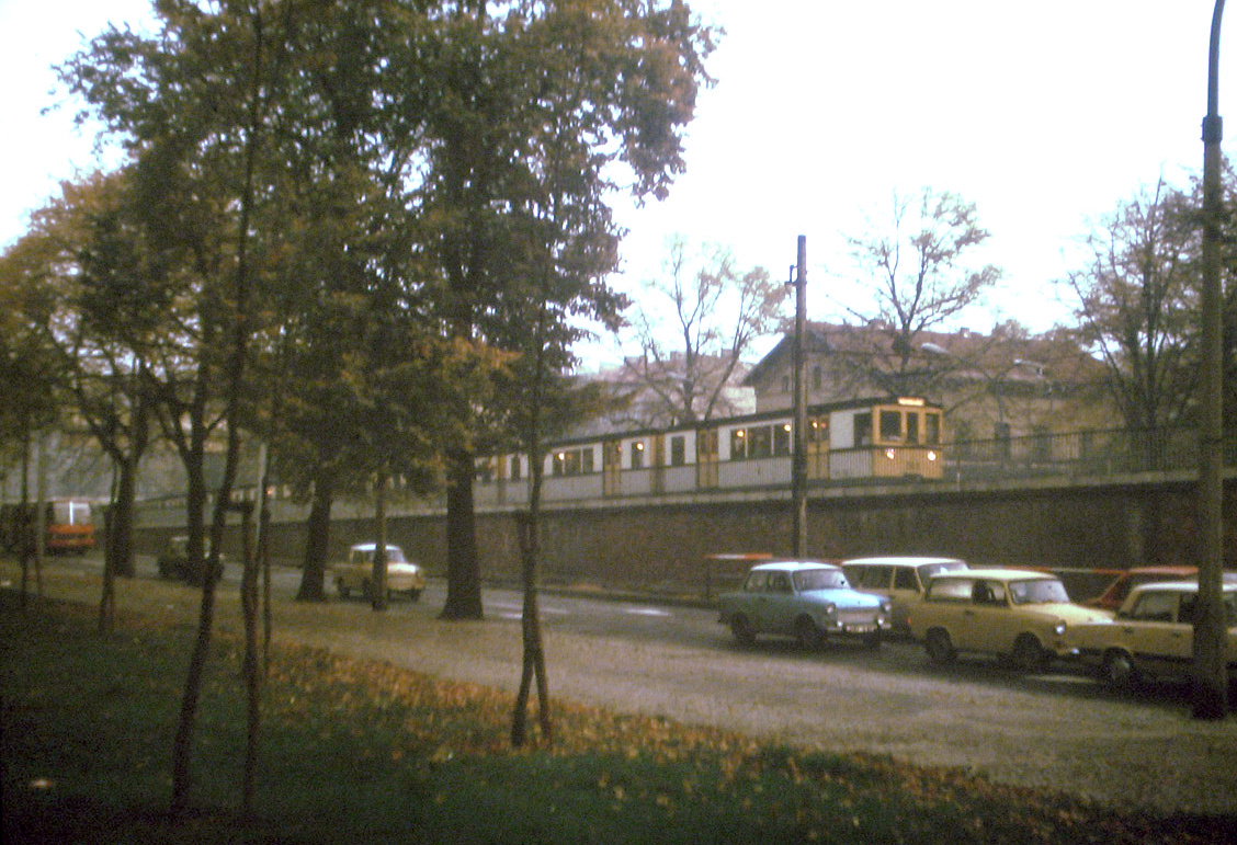 U2 near Vinetastrasse